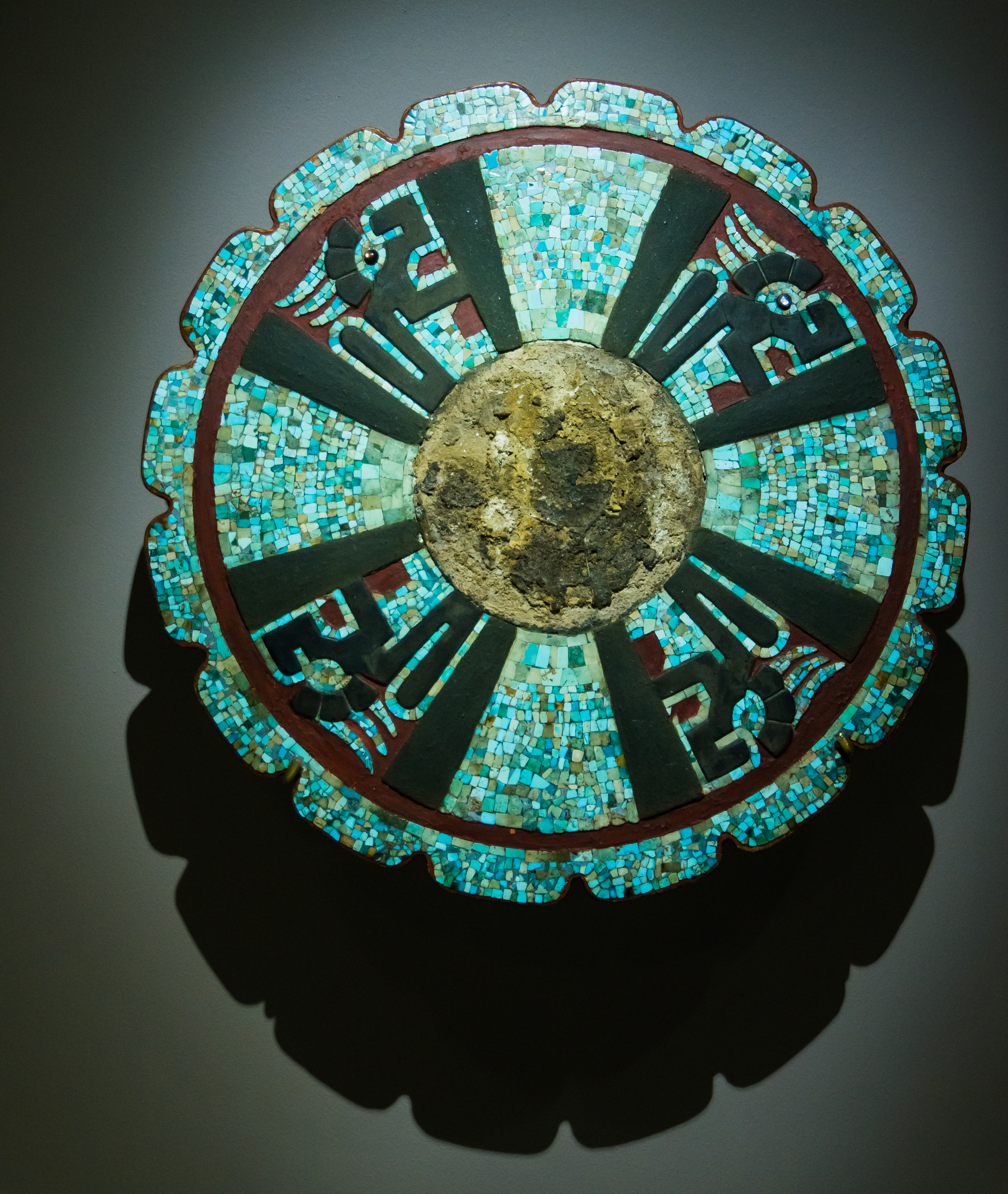 Disk of Chichen Itza, Maya art, post-classic ancient, 900 - 1250 CE, wood, slate, turquoise, coral, shell